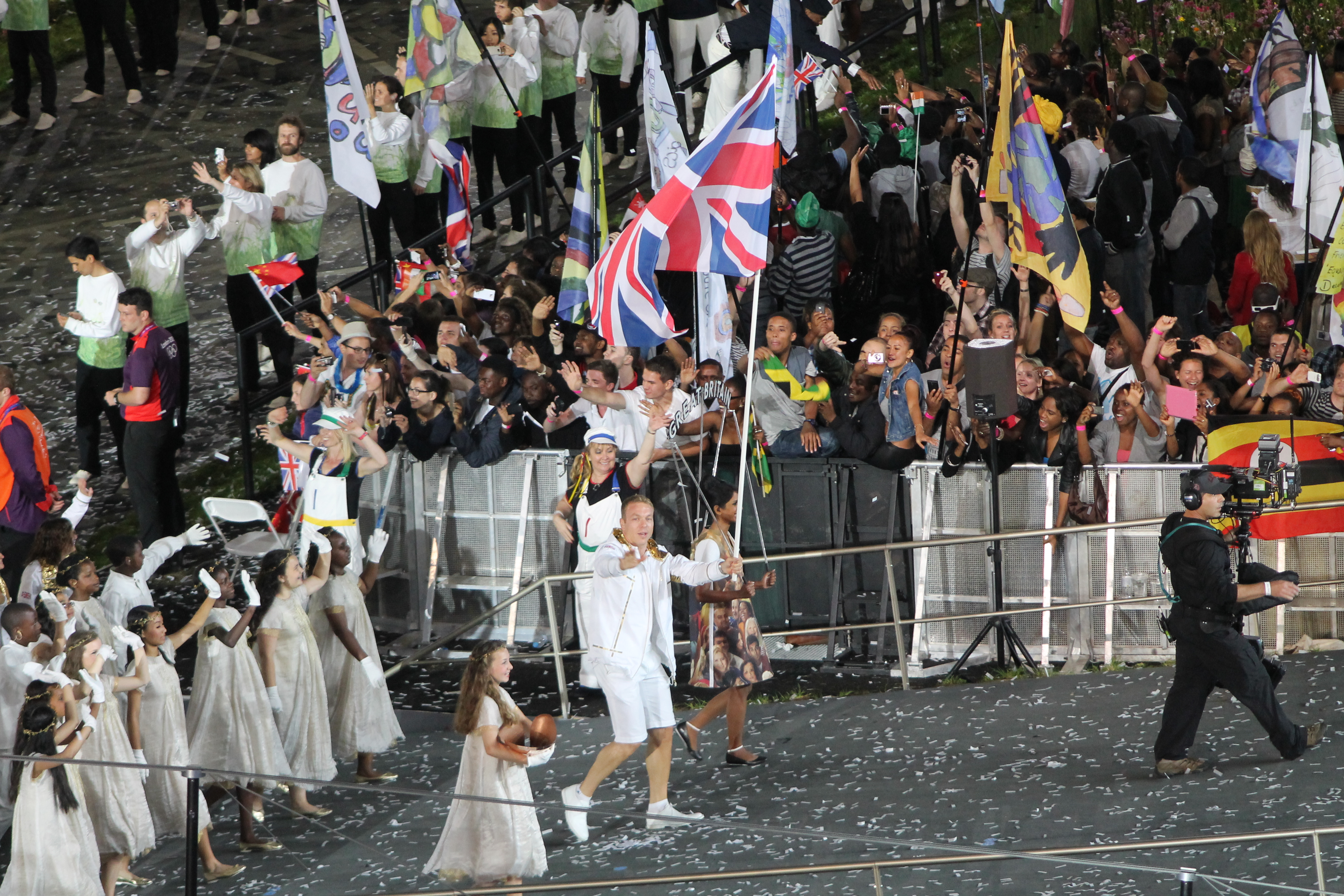 Sir Chris Hoy leading team GB into the London 2012 Olympic Opening Ceremony